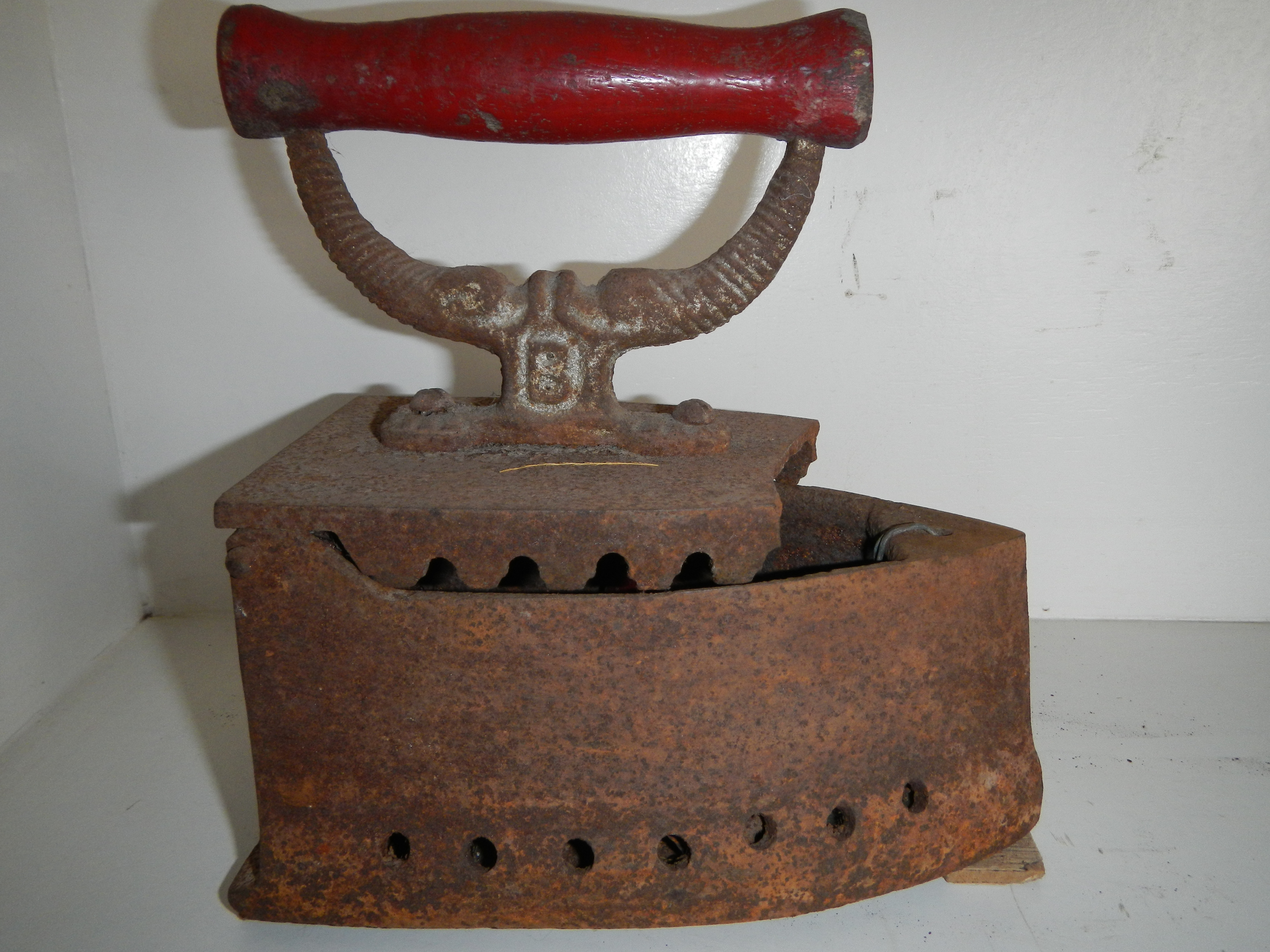 Minalin, Pampanga[1] Museo Ampon Simpanan Kabiasnan Ning Minalin (Museum and Library of Minalin)